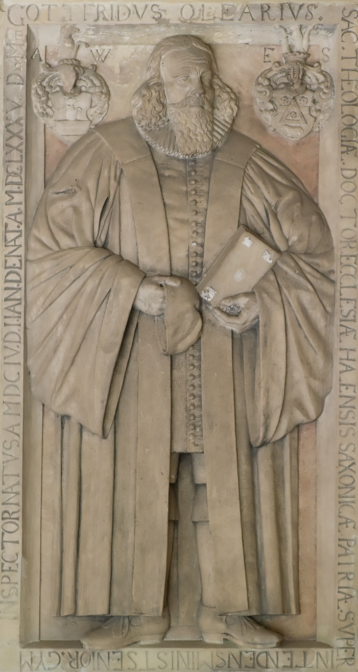 Gottfried Olearius (1604–1685), German Theologian and Chronicle; epitaph, Stadtgottesacker Halle